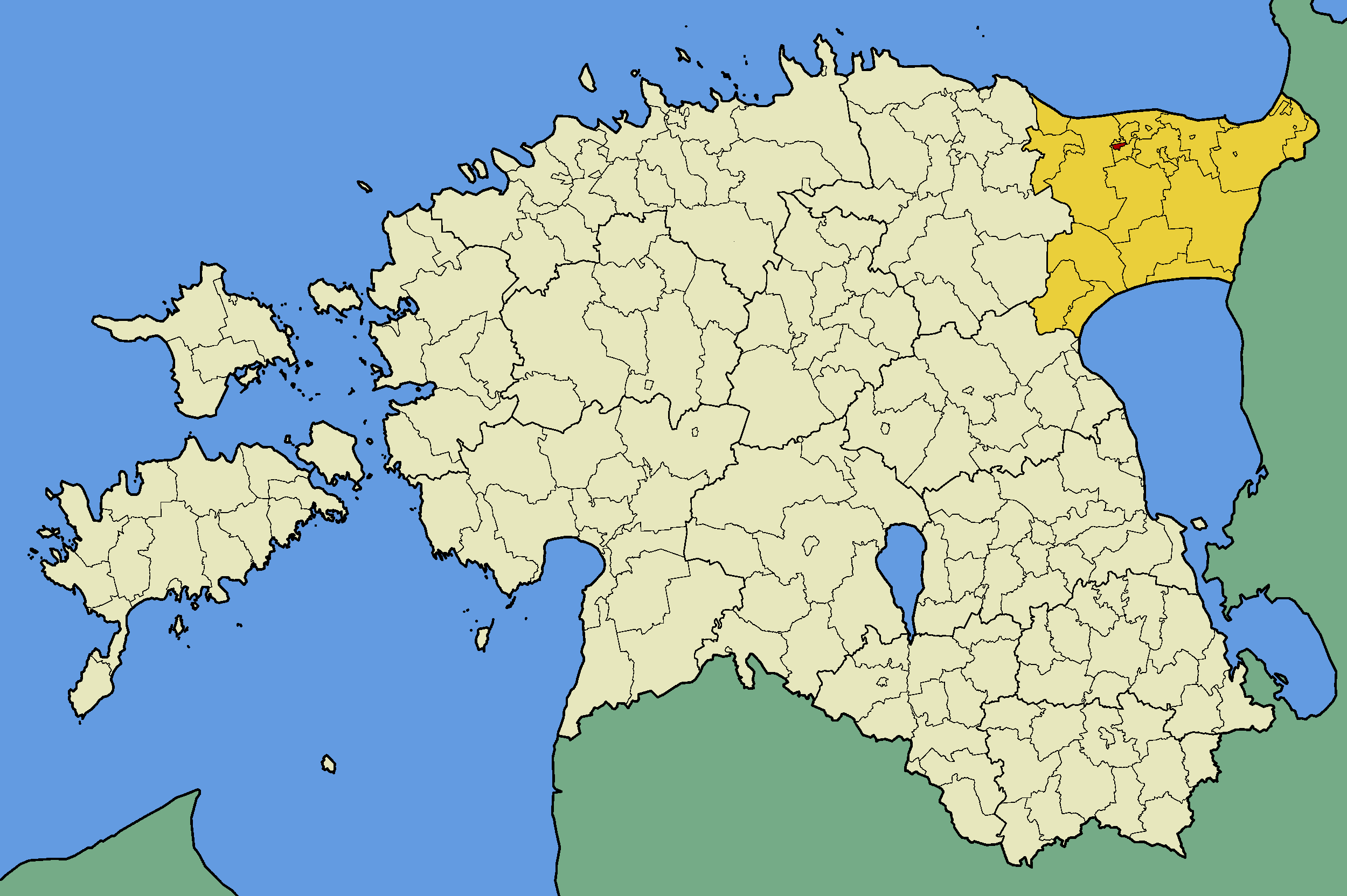 Map of Estonia with borders of municipalities (parishes). Ida-Viru county and Kohtla-Nõmme municipality emphasized.